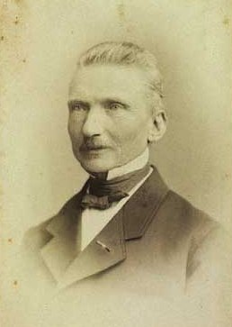 Ludvig Lorents Mozart Waagepetersen (1813-1885), Danish wine merchant, Purveyor to the Royal Danish Court